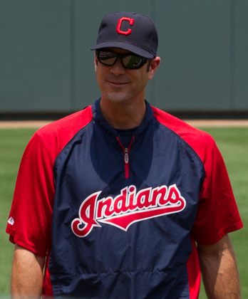 Cleveland Indians coach Scott Radinsky - Indians at Orioles July 1, 2012